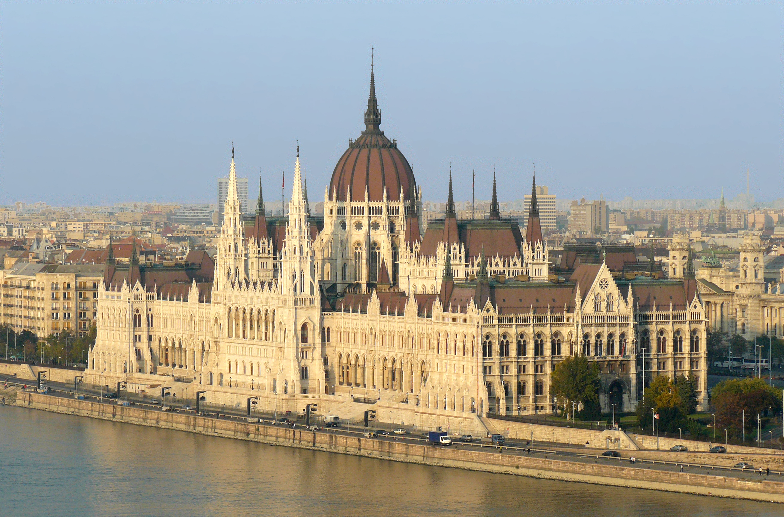 Building of the Hungarian Parliament after renovation. View from Buda castle.